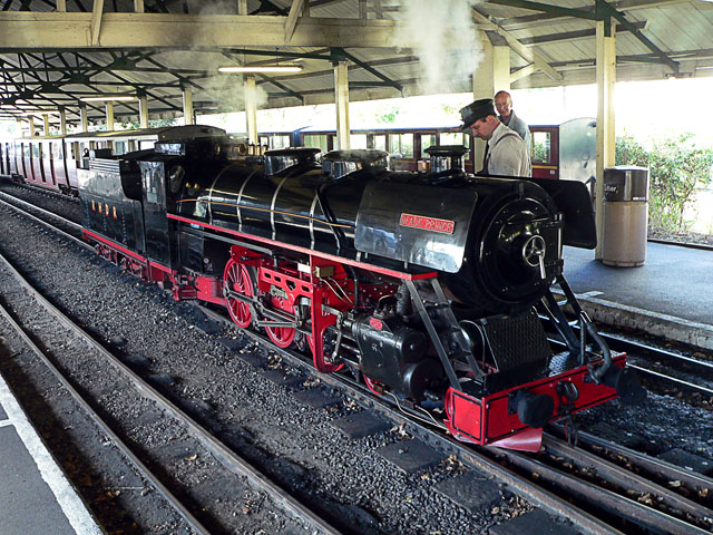 Black Prince Romney, Hythe and Dymchurch Light Railway Locomotive Black Prince is serviced inside the train shed at Hythe after its journey from Dungeness. This locomotive is a copy of a full size German Locomotive and painted in Deutsche Bundesbahn colours.